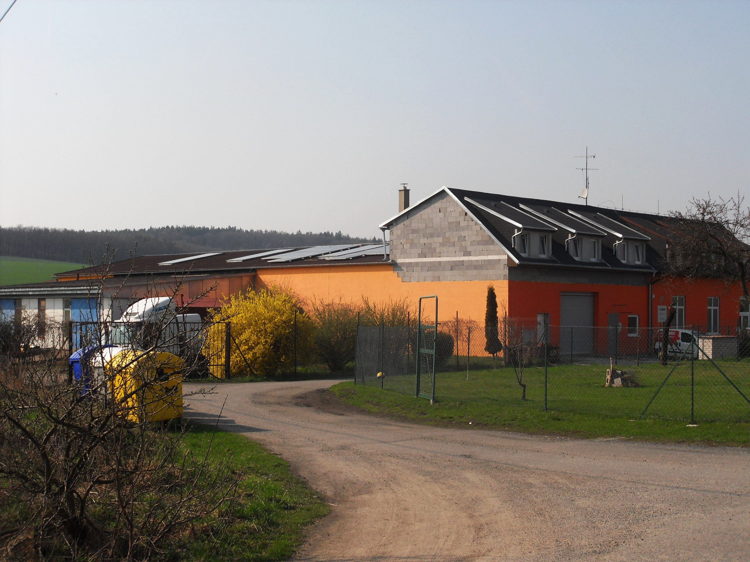 Former Anna coal mine, Zbýšov, Brno-venkov District, Czech Republic